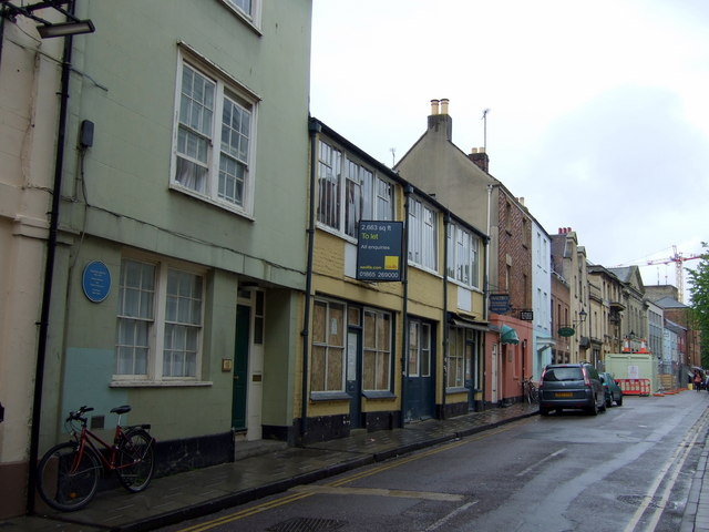 St Michael's Street, looking east This was once a dog-leg of New Inn Hall Street before that was rerouted into George Street, and this section was named for St Michael's at the Northgate which stands at the far end where the tower is visible below the crane. St Michael's Street follows the old city wall, parts of which are incorporated in its buildings. The oldest houses here date back as far as the C16 and others belong to succeeding centuries; on the opposite side is the Oxford Union. The blue plaque on the left commemorates Felicia Skene 'prison reformer and friend to the poor'.